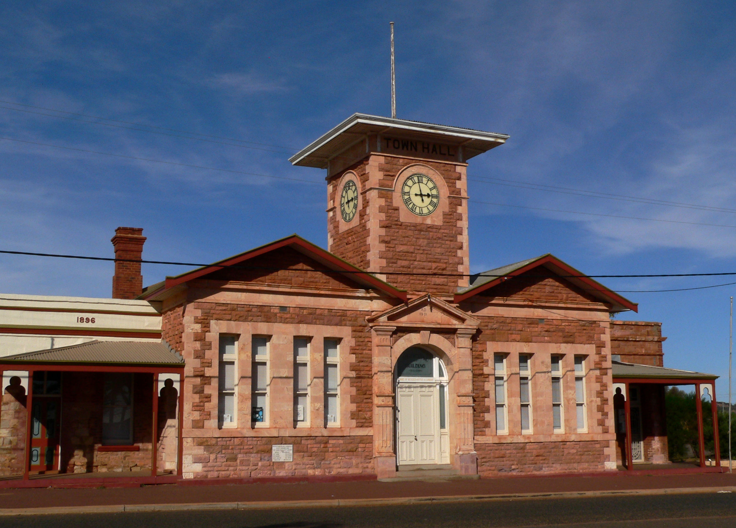 The front of Menzies Town Hall.